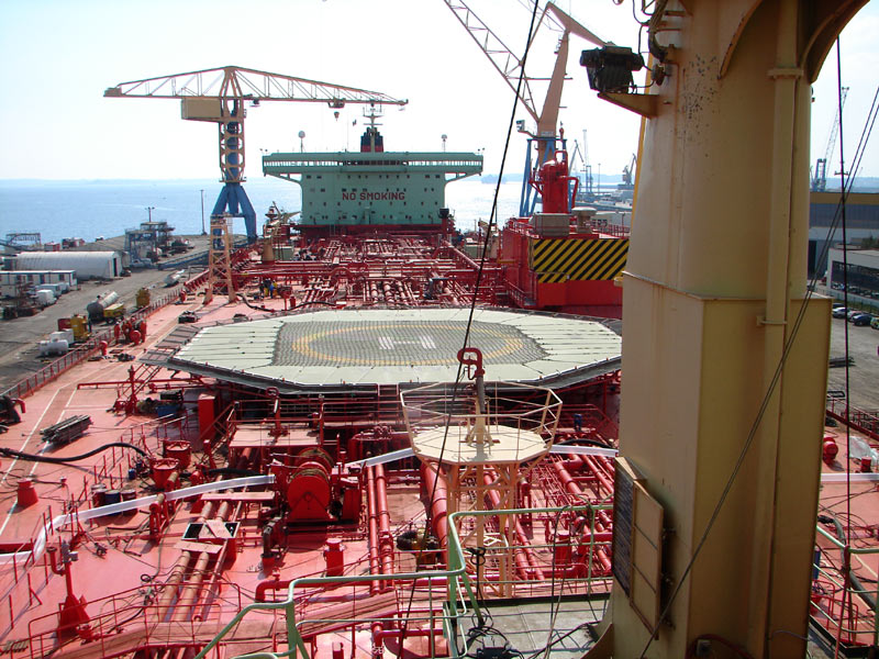 Deck of the oil tanker Juanita, featuring (from far to front) the superstructure, the piping system, the VOC scavenging system, a helicopter platform, a firefighting platform and the forward mast.